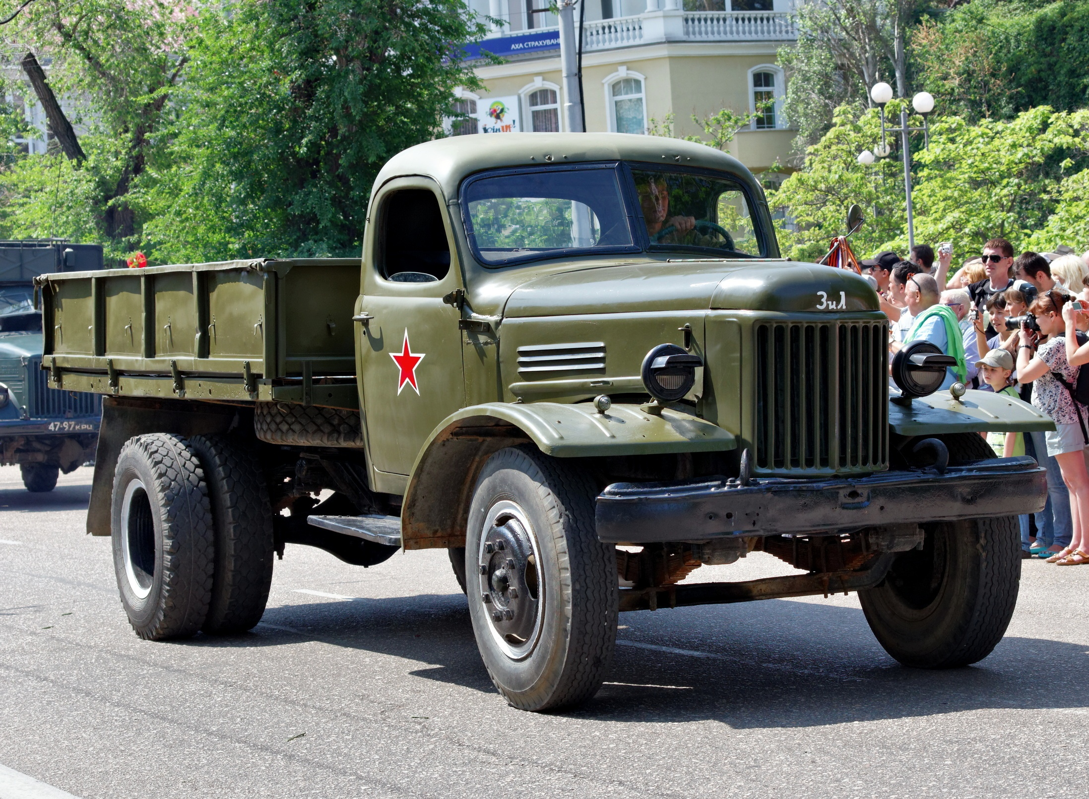 A ZIL-164 truck in Sevastopol.